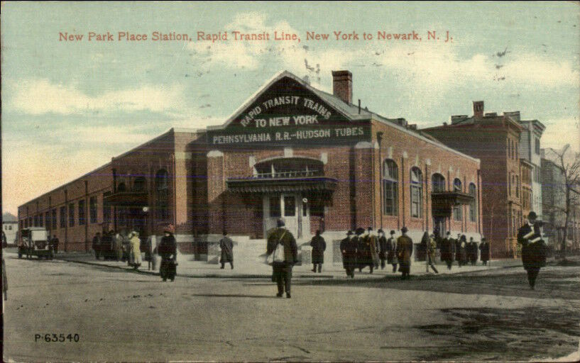 Early divided back postcard of Park Place station, postmarked 1914